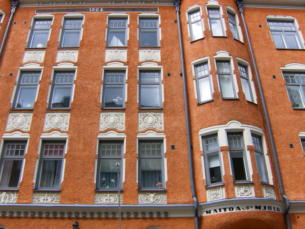 Kalevankatu 33, Helsinki, Finland